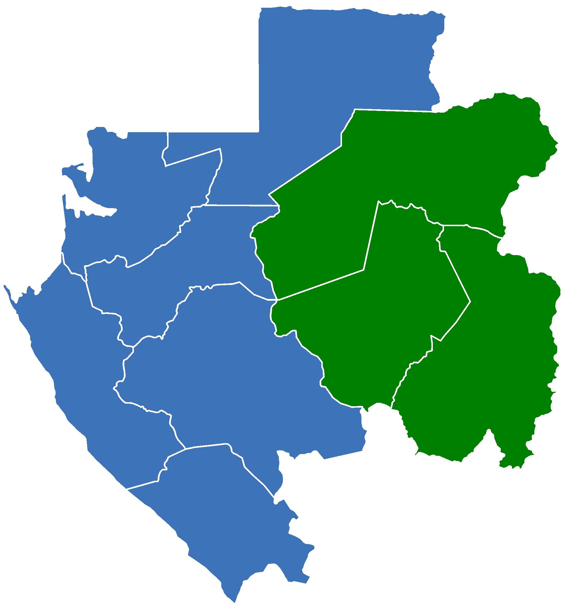 Result by Province. Green is Ali Bongo Ondimba won, blue is Jean Ping won.